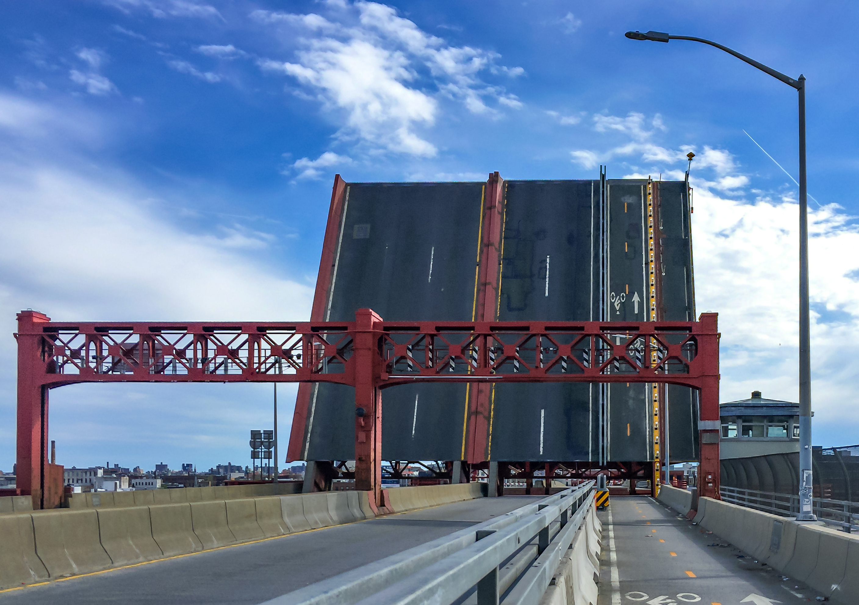 Pulaski Bridge, a 1954 double-leaf bascule bridge over Newtown Creek, in New York City, with its draw span opened for a ship.